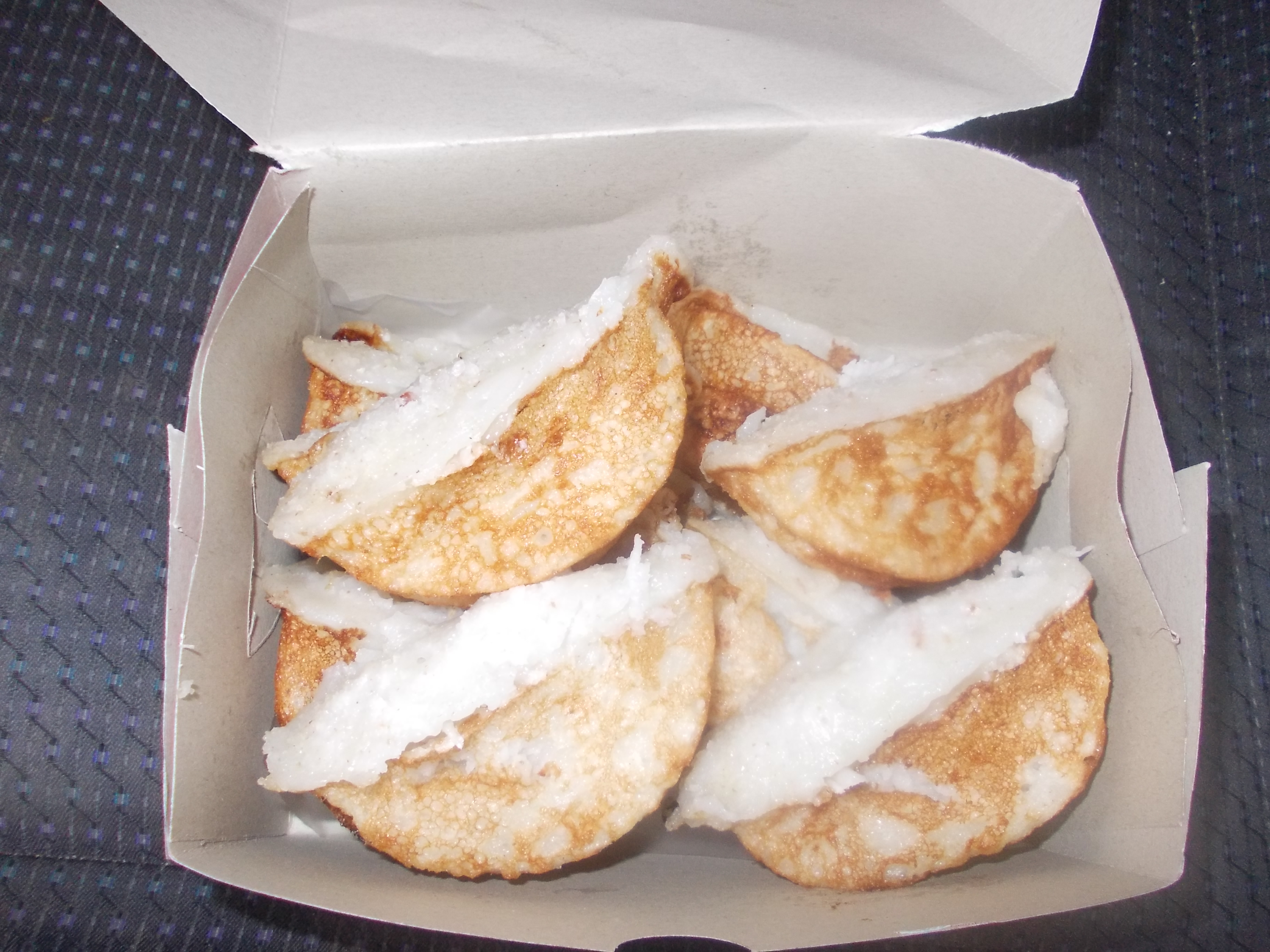 Kue pancung, one of Indonesia most popular street foodBahasa Indonesia: Kue pancung, salah satu jajanan pasar Indonesia yang terkenal